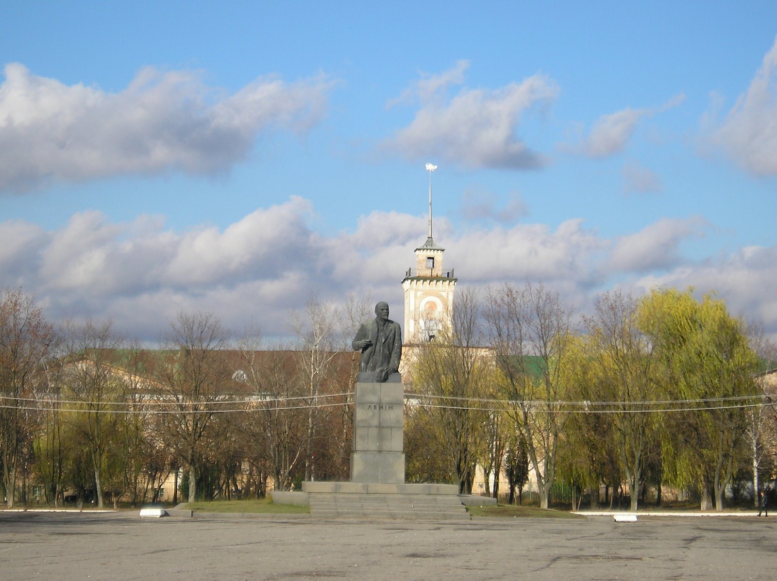 Чугуев, Харьковская область, Здание штаба военных поселений Российской Империи. Вид с площади.